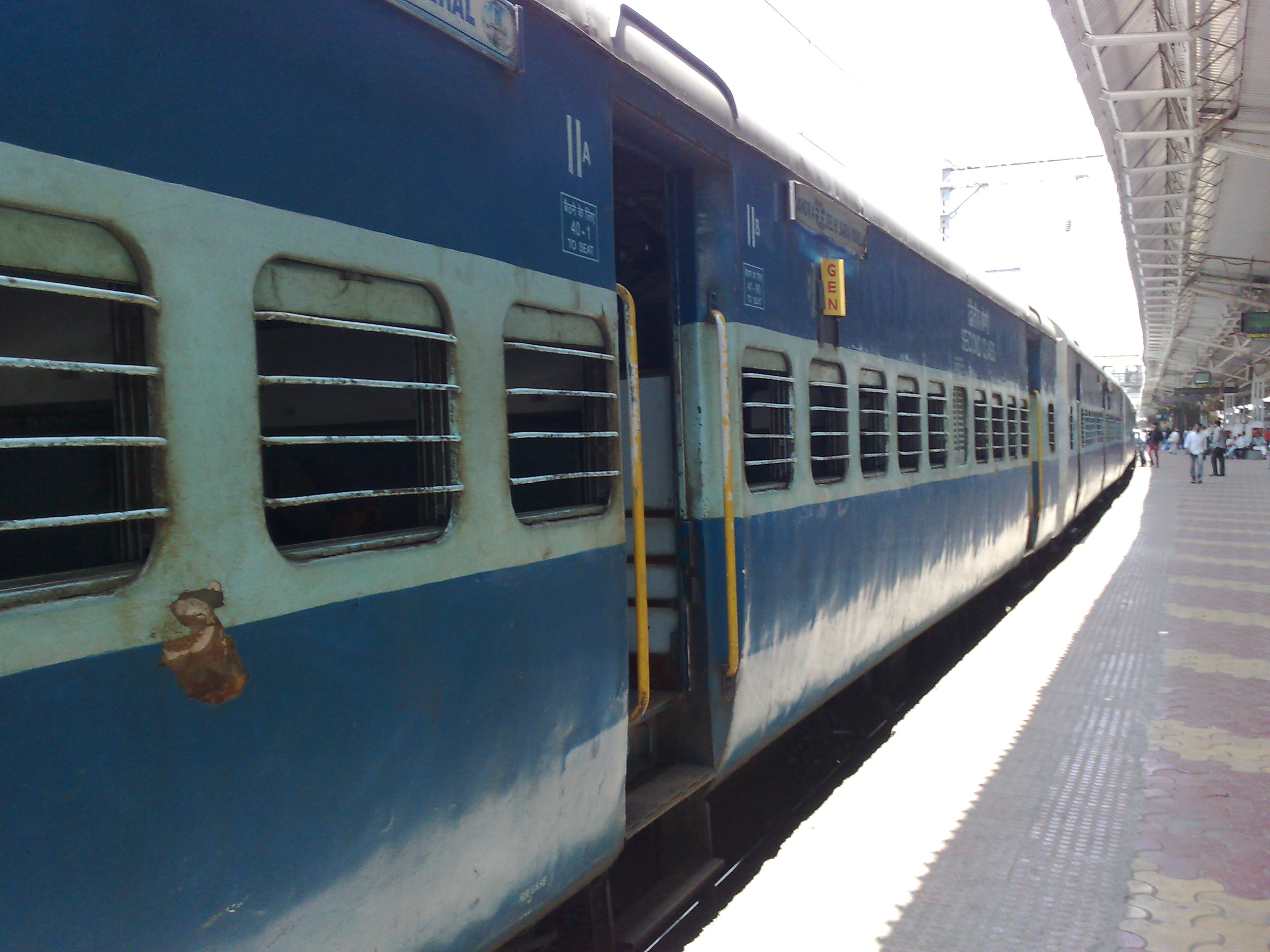 Bandra Terminus Delhi Sarai Rohilla Express at Borivali